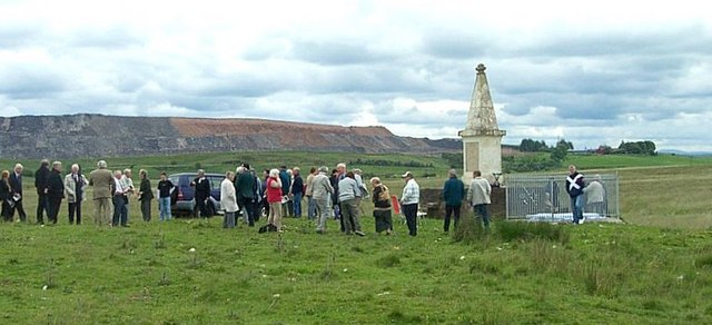 Conventicle at Airdsmoss Battle of Airds Moss 22nd July 1680 Richard Cameron and eight other Covenanters killed here, including John Gemmell of New Cumnock